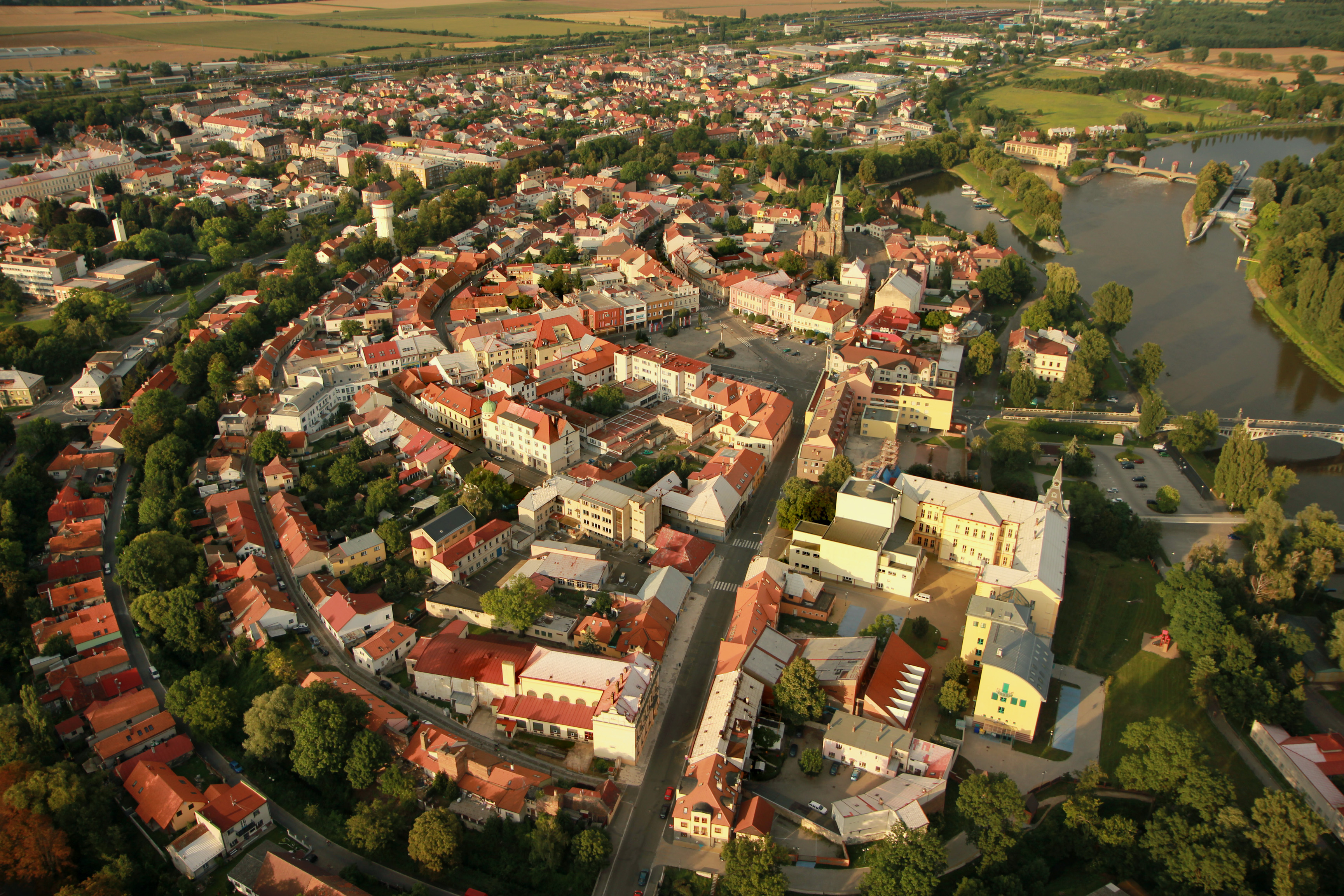 West view of Nymburk, Czech Republic